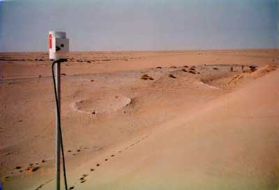 Two of three Wabar impact craters in Rub' al Khali desert, Saudi Arabia. Original caption: Photo of the "11-Meter" crater; (left, discovered by Wynn in December 1994) and the Philby "A" crater (right, discovered by Philby in 1932) taken from the seif dune (foreground) of figure 2. On the left crater, one can see the sensor head of one of the magnetometers used for the magnetic survey conducted at the site.